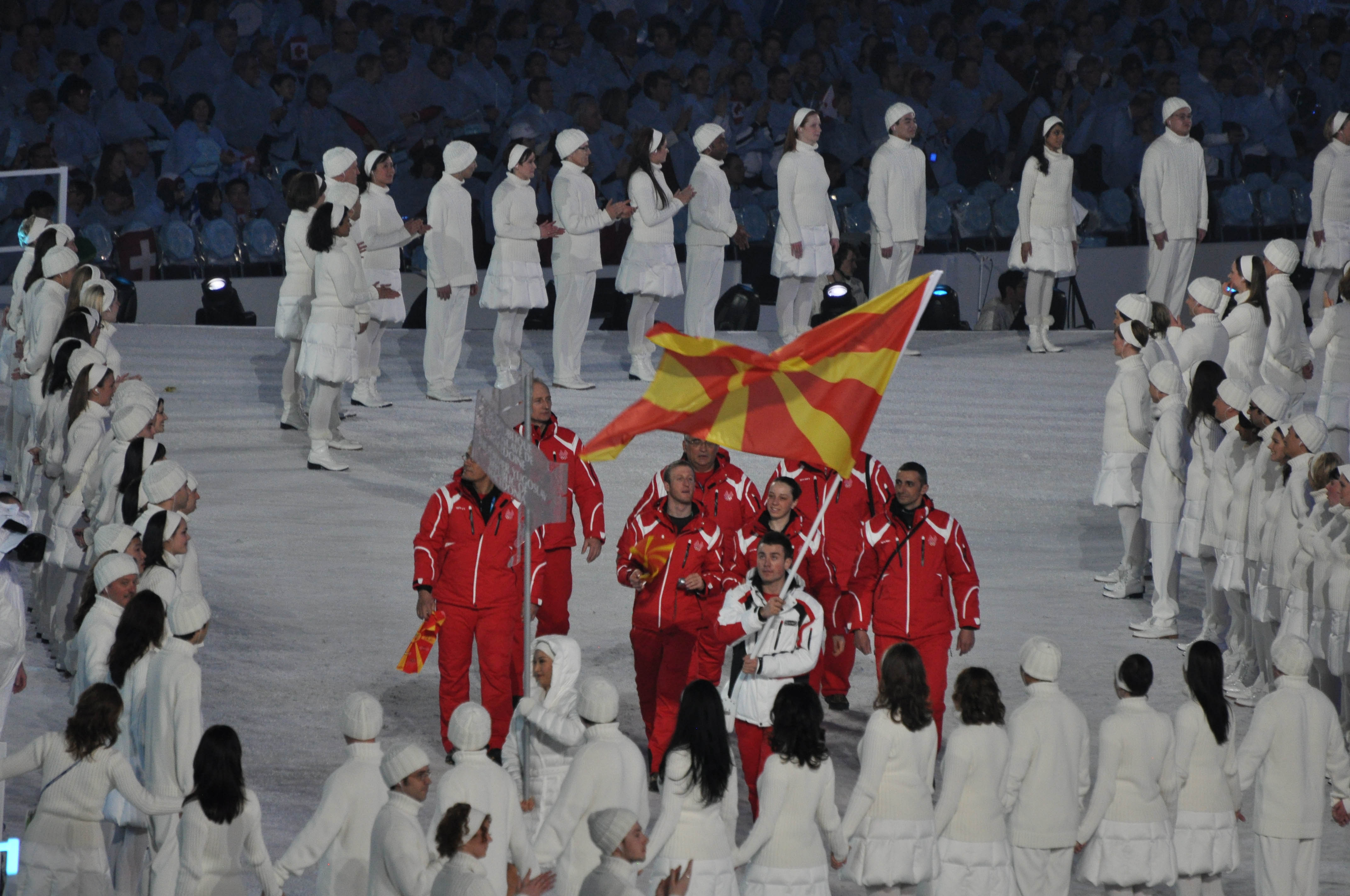 Macedonia at 2010 Winter Olympics